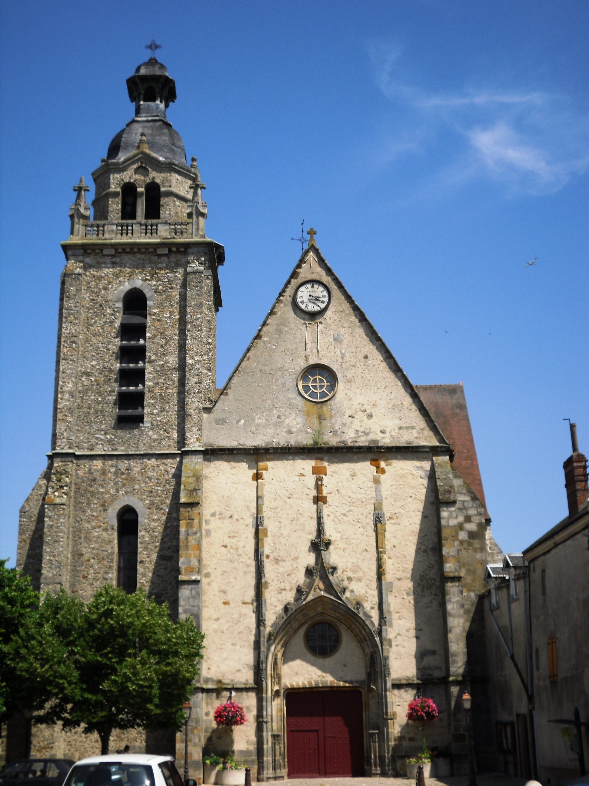 Saint Pierre Church, Limours, Essonne, France